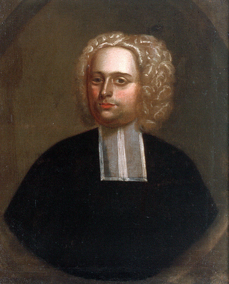 A portrait believed to be of an early minister of Deerfield, Massachusetts, John Williams. Williams is most famous for his narrative about his time spent as a captive of Indians following the 1704 Raid on Deerfield.